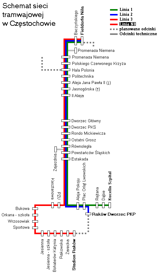 Tram lines in Częstochowa with stops.